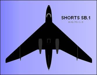 plan view (silhouette) of Short SB-1; Attribution requested: GVG/PD